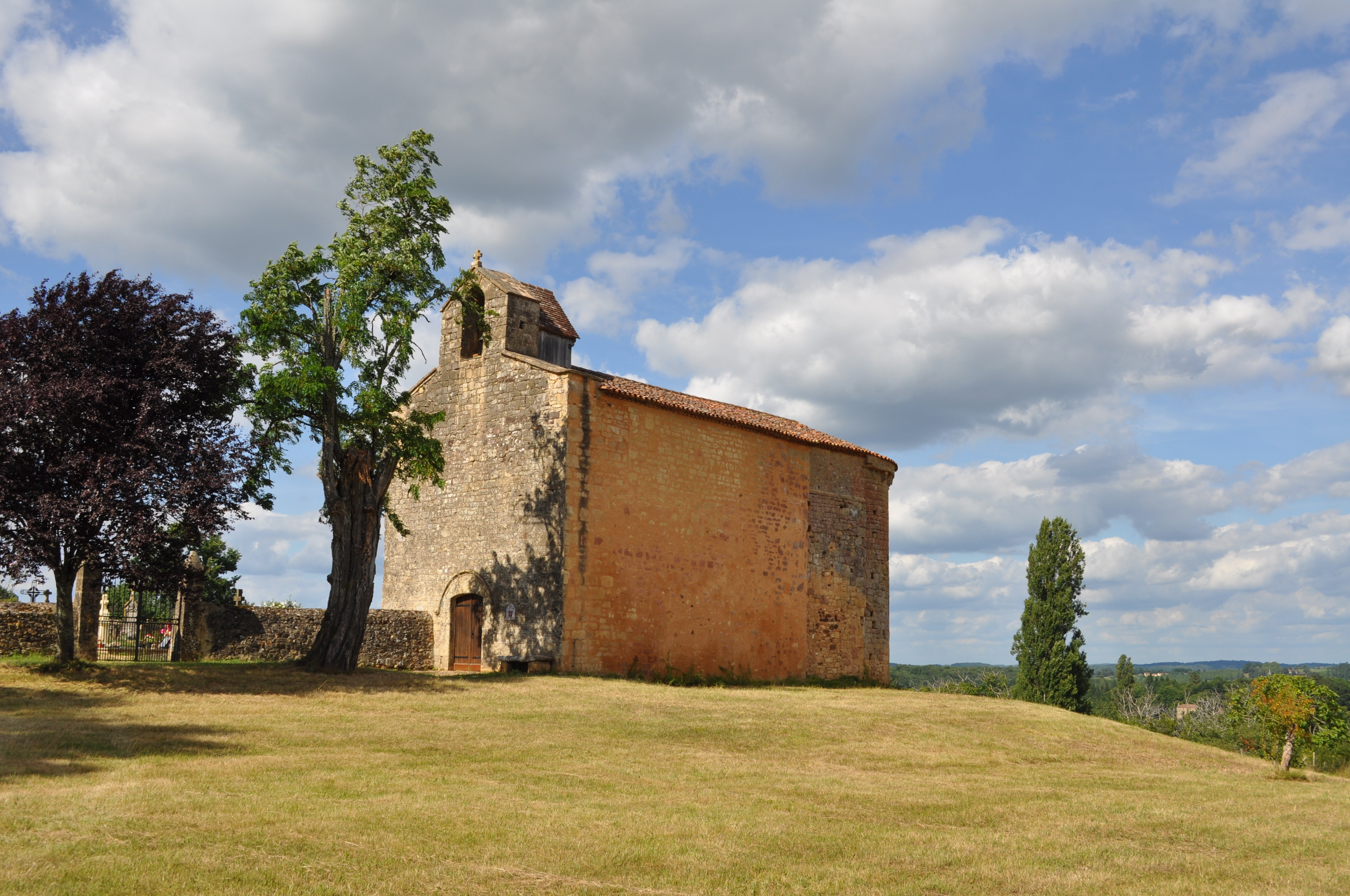 Saint-Barnabé church (XIIth century) in Saint-Pardoux-et-Vielvic, Dordogne, France